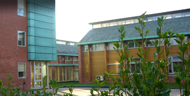 Rare's headquarters in Twycross, Leicestershire, UK